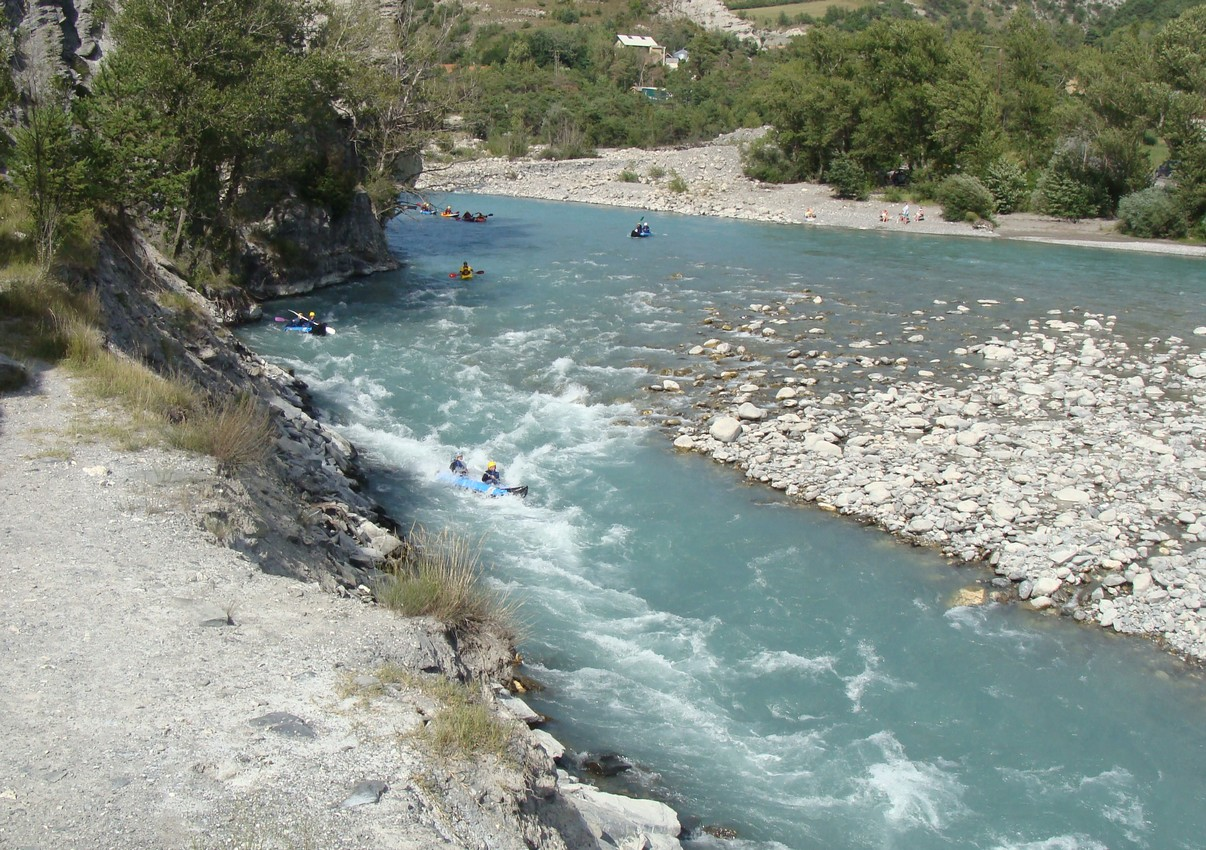 Rafting on the Durance river near Embrun (Hautes-Alpes, France)